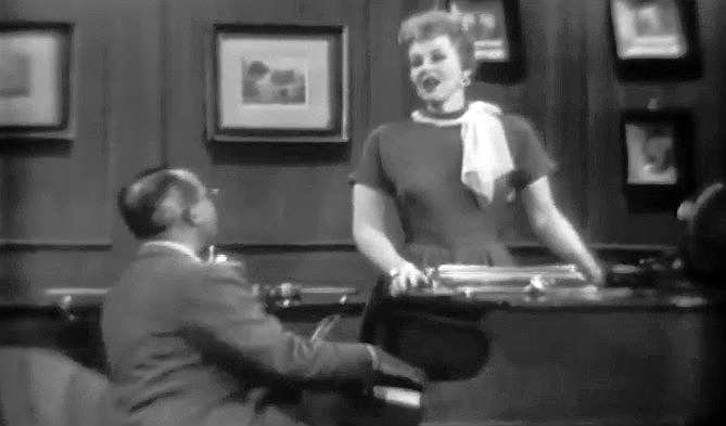 Screen capture from A Shower of Stars depicting Jo Stafford and her husband, Paul Weston, performing as Jonathan and Darlene Edwards. The Edwardses were a fictional couple created by Stafford and Weston as a comedy music act. As Jonathan, Weston plays a very bad lounge piano while Stafford as Darlene, provides vocals in every key except the right one. The couple produced at least five record albums as the imaginary couple. Jonathan and Darlene Edwards in Paris won a Grammy for Best Comedy Album in 1961. Jack Benny was the headliner for this January 9, 1958 television special. The plot ran that he had written a song and with the help of Ed Wynn, was trying to get singers to record it. Benny tried guest star Tommy Sands with no luck, then began his pitch to Jo Stafford and Paul Weston, who also were guests. The Westons didn't want to record the song, but didn't want to hurt Benny's feelings by refusing to, so they decided to "pass" the song to Jonathan and Darlene Edwards, who then demonstrated their "skills" by performing "All the Way" as a proposed "B" side of the single.